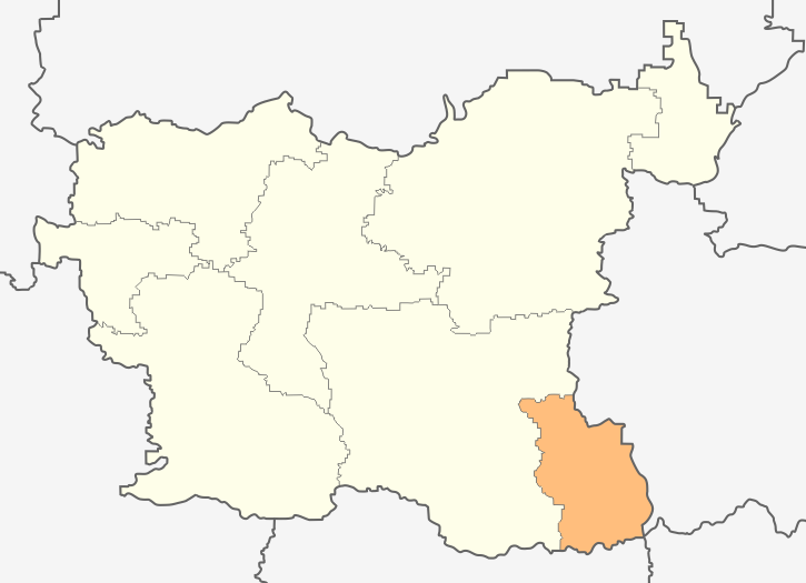 Map of Apriltsi municipality, Lovech Province